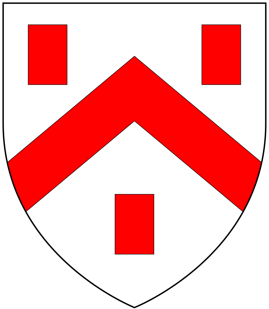 Arms of Kelly of Kelly, Devon: Argent, a chevron between three billets gules (Source: Vivian, Lt.Col. J.L., (Ed.) The Visitation of the County of Devon: Comprising the Heralds' Visitations of 1531, 1564 & 1620, Exeter, 1895, p.511)